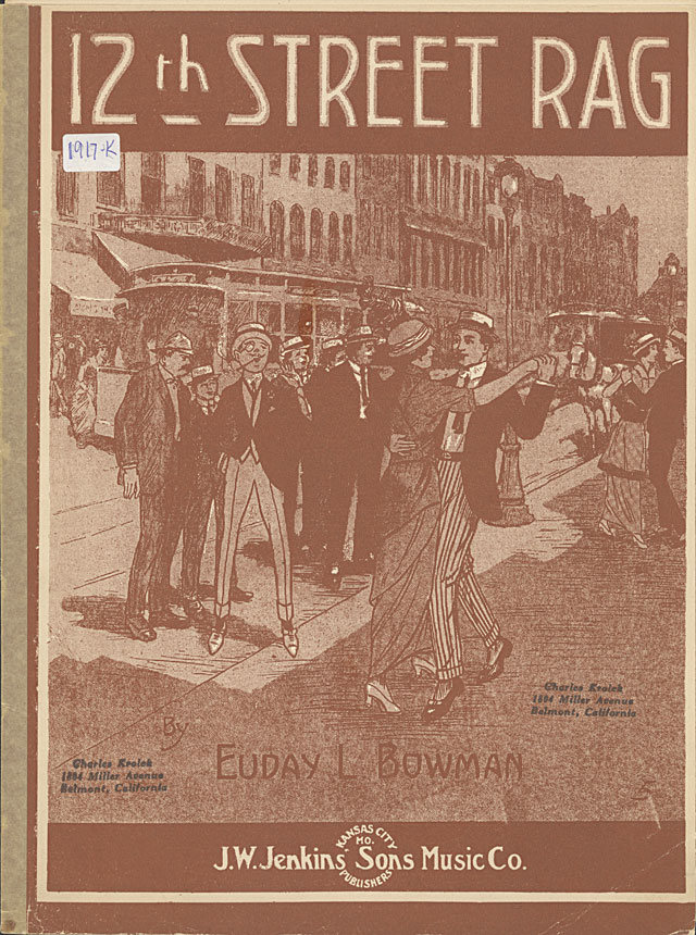 12th Street Rag by Euday L. Bowman. Sheet music, early (first?) edition, 1915.